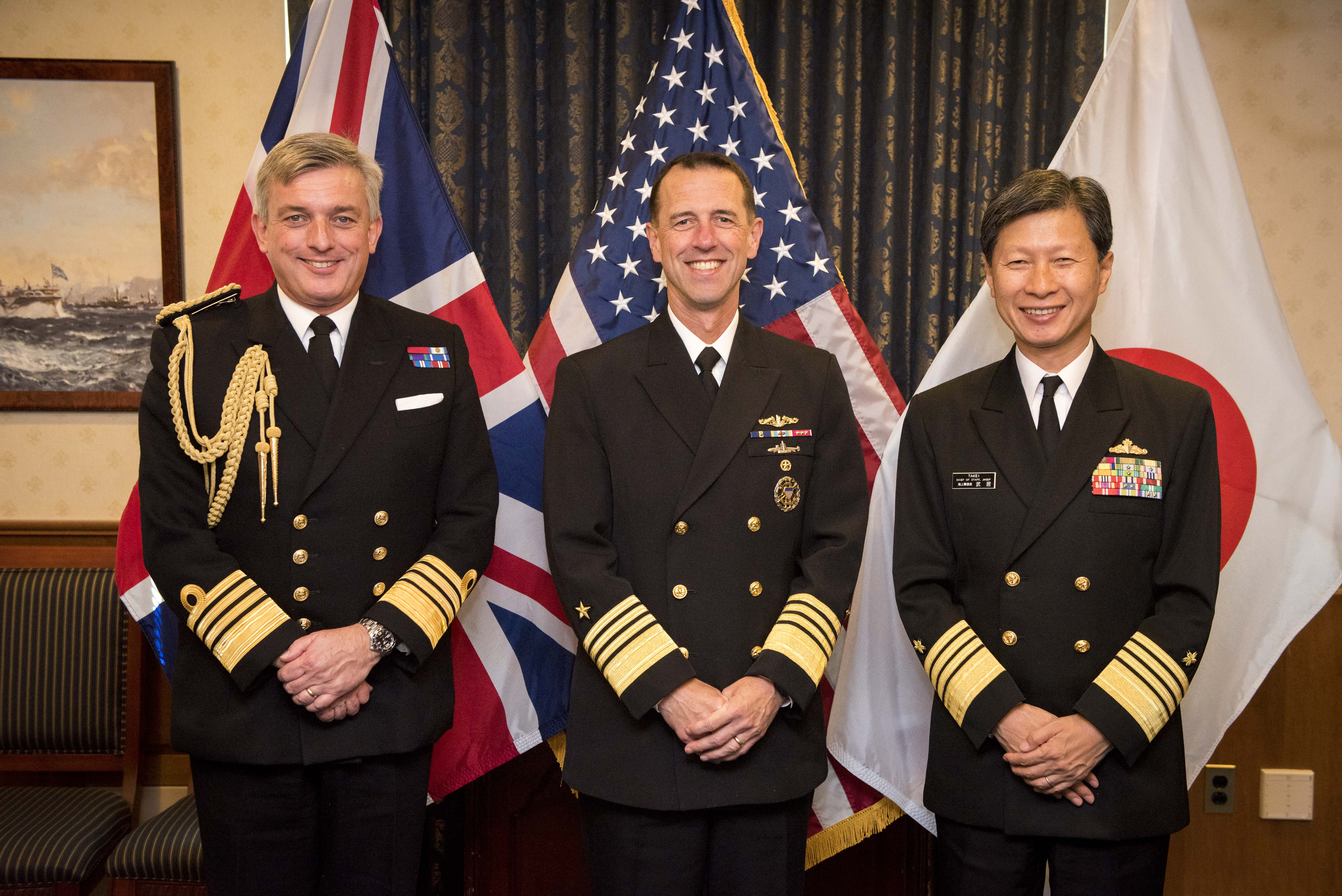 L-R: First Sea Lord Adm Sir Phillip Jones; Chief of Naval Operations (CNO) Adm John Richardson and Chief of Staff of the Japan Maritime Self-Defence Force, Adm Tomohisa Takei, met at the Pentagon in Washington to cement increased collaboration and cooperation.